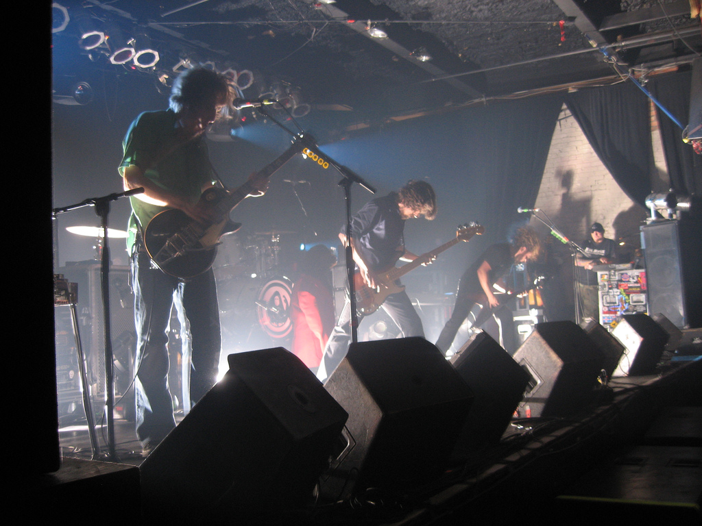 My Morning Jacket onstage in 2006